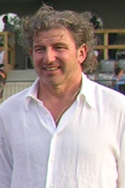 Márton Esterházy Hungarian international football player and coach in Telki (Hungary) - Football Festival orginized by MLSZ